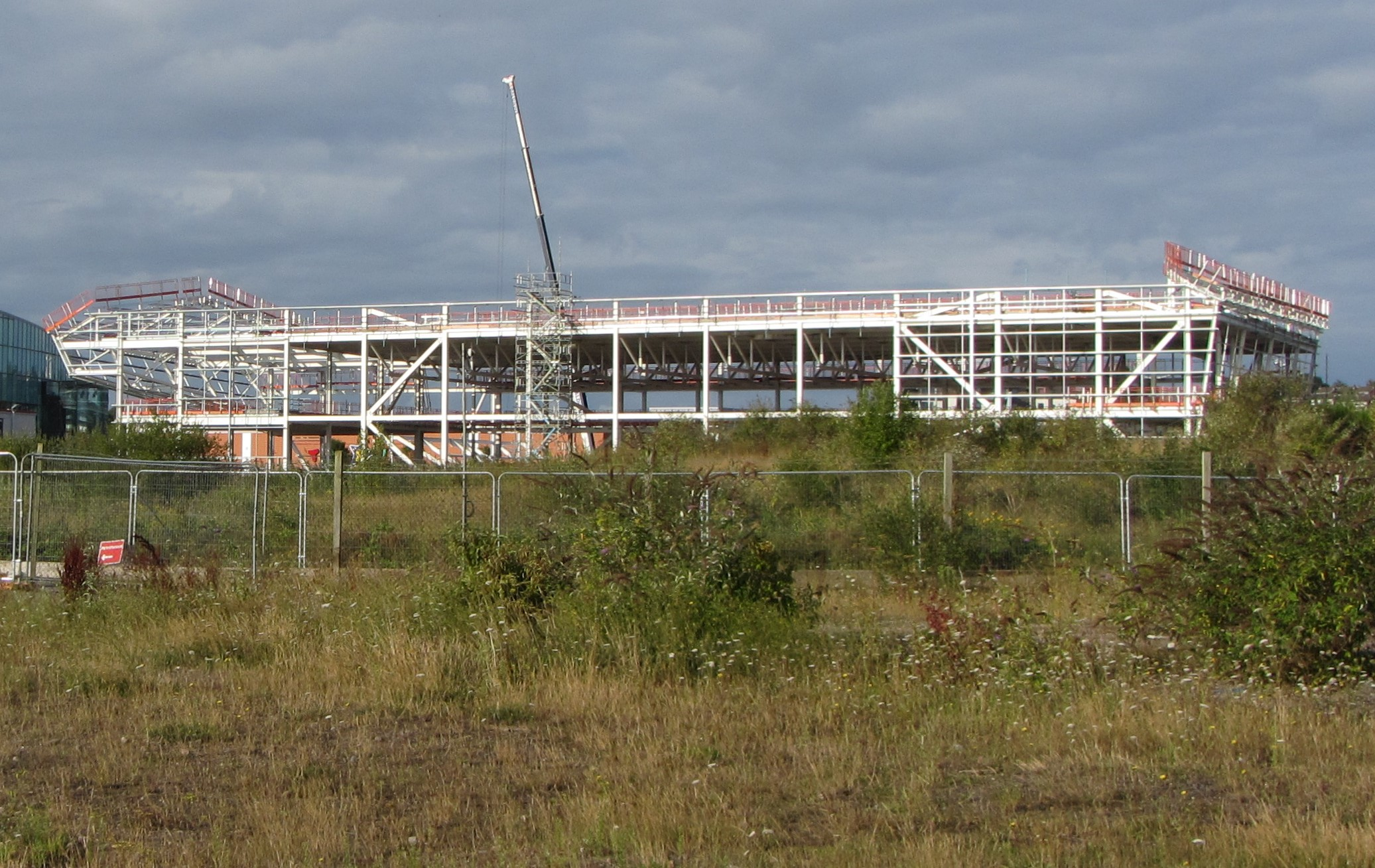 Cropped image of the Ice Arena Wales during constructionat the Cardiff International Sports Village, Cardiff Bay, Cardiff, Wales